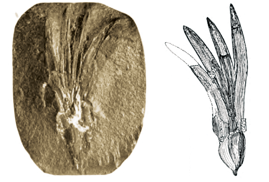 The male pollen organ of a Medullosan seed plant of the Carboniferous. Specimen was identified and named by E.H. Sellards in 1903. Sellards illustration is on the right.